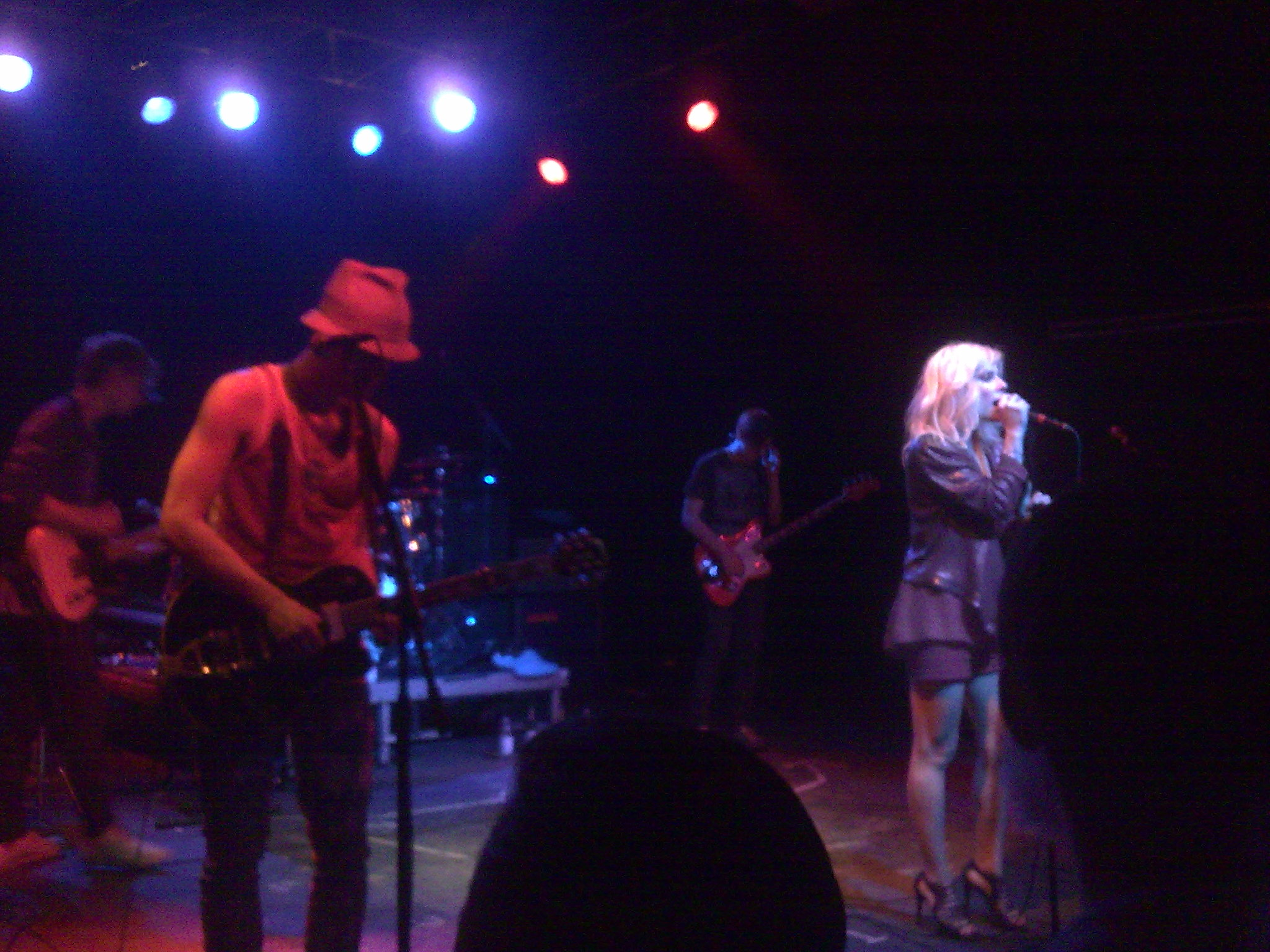 The Sounds @ Röhre, Stuttgart